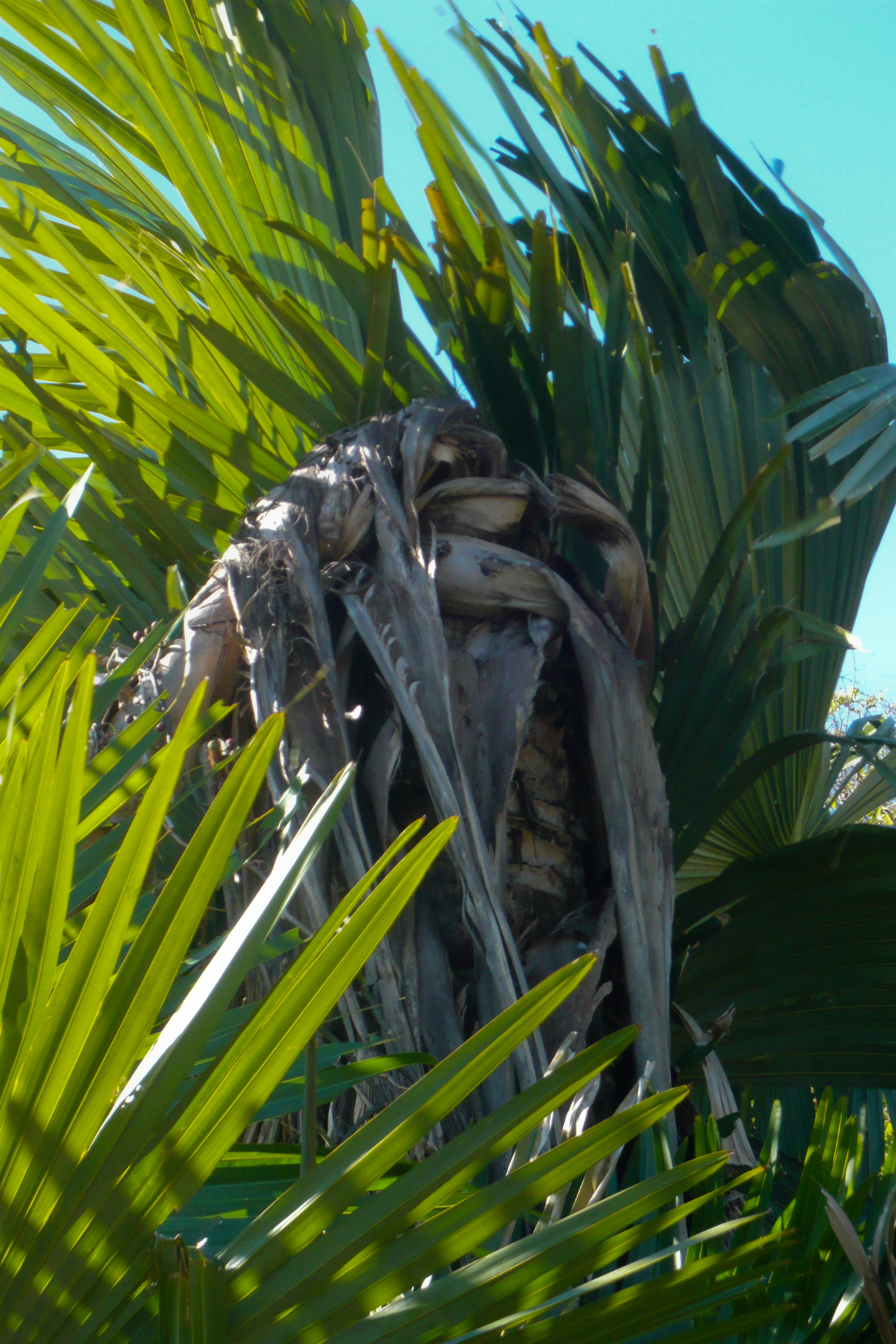 The fall of Tahina Spectabilis.